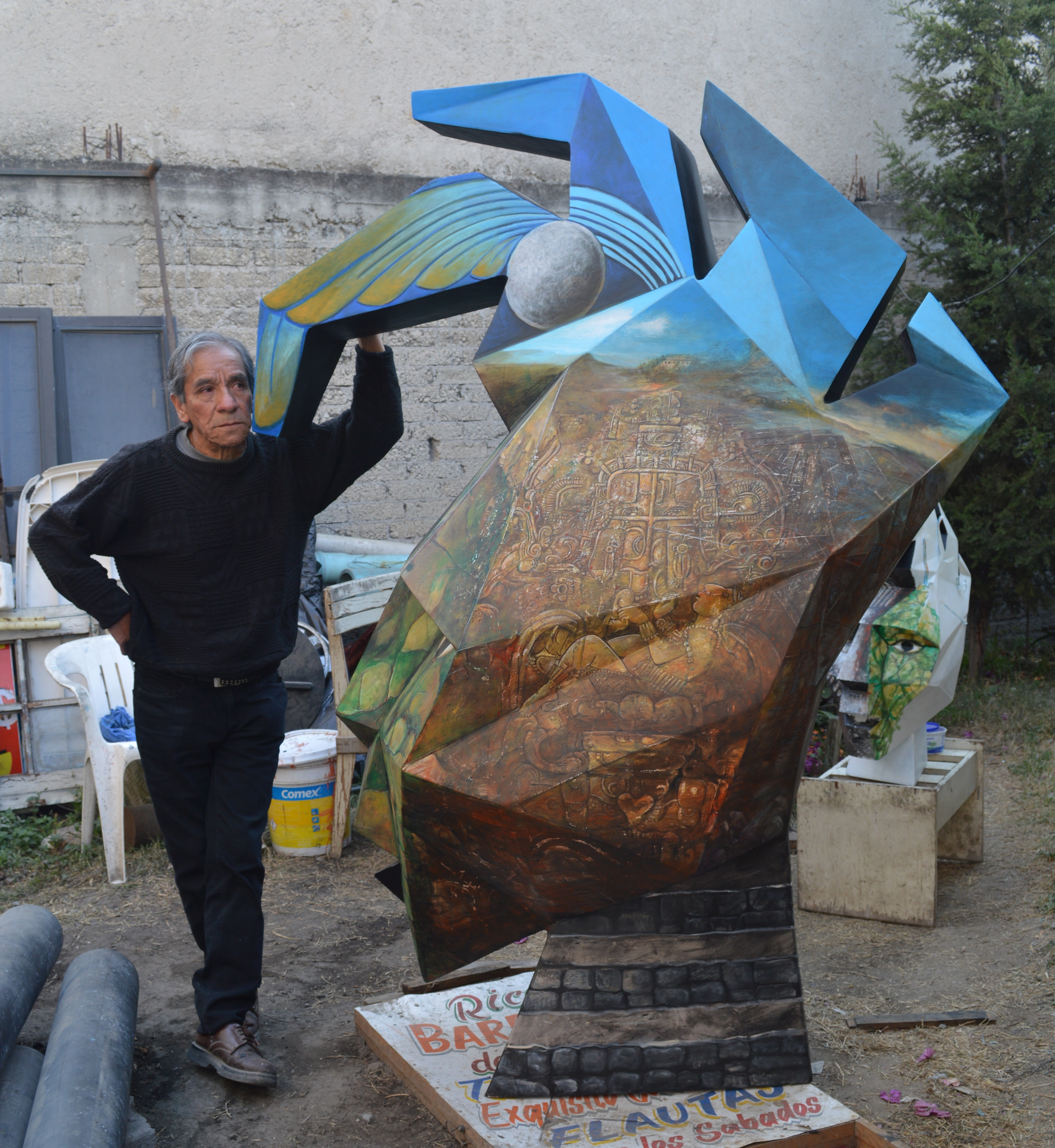 Mauricio García Vega with one of the pieces in collaboration with his brother Antonio Garcia Vega in their workshop in Ciudad Nezahualcoyotl, Mexico